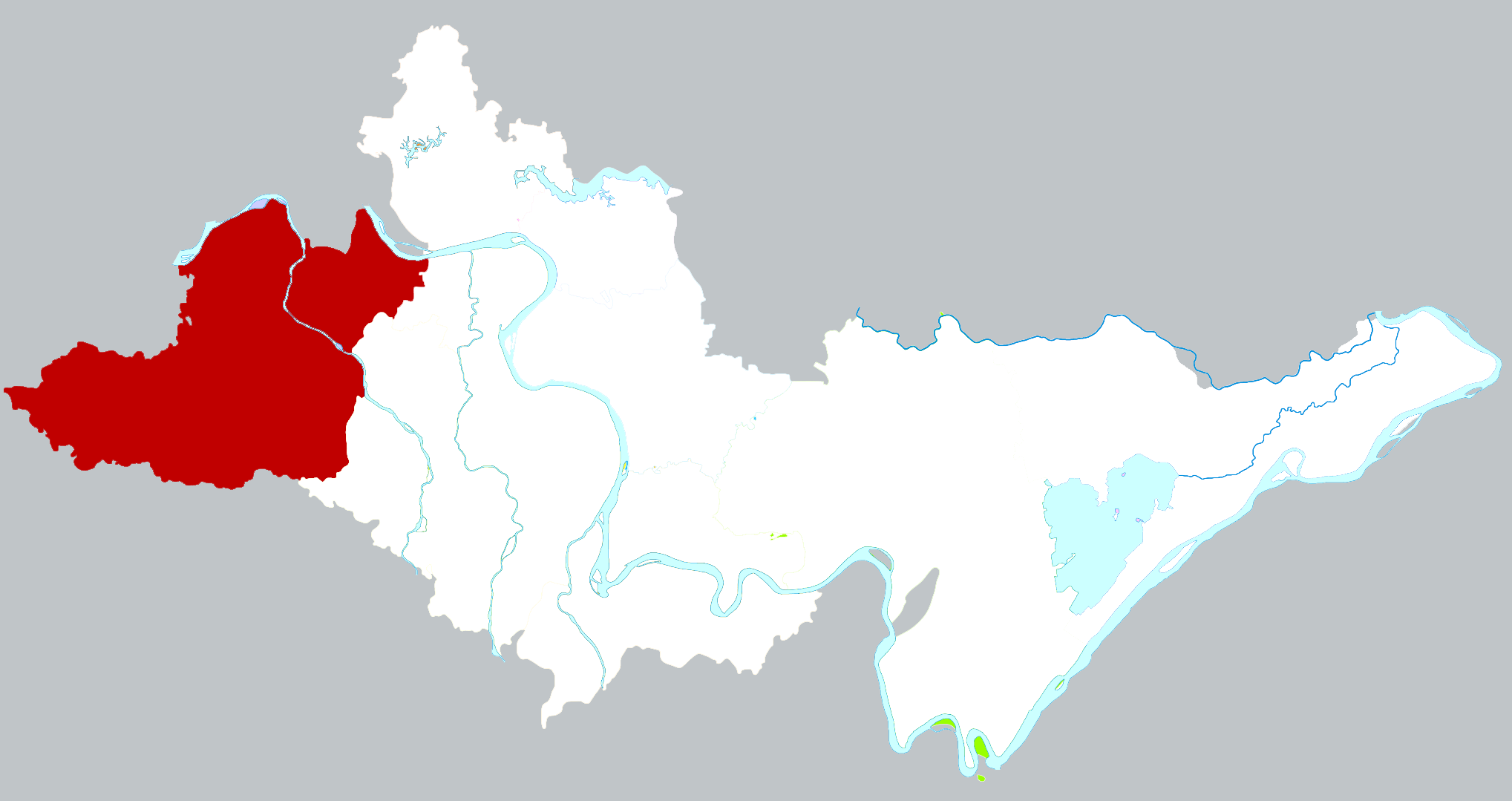 Location of Songzi county-level city in Jingzhou city, China